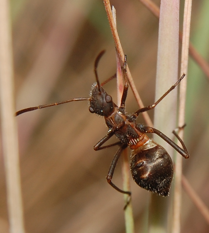 Alydus calcaratus (Alydidae), nymph. Forest Jungfernheide, Berlin, Bezirk Reinickendorf